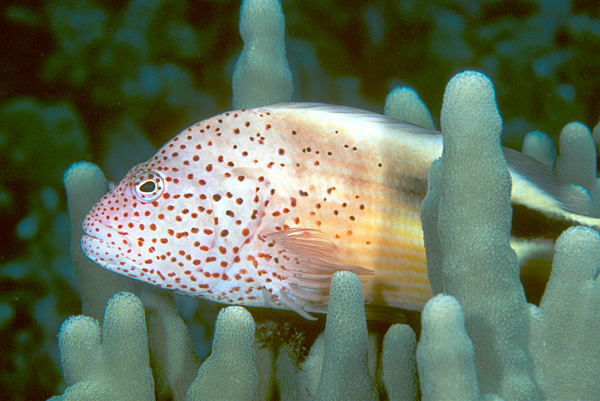 Paracirrhites forsteriBlack-sided Hawkfish, Kona, Hawaii. Image taken by Clark Anderson/Aqauimages.